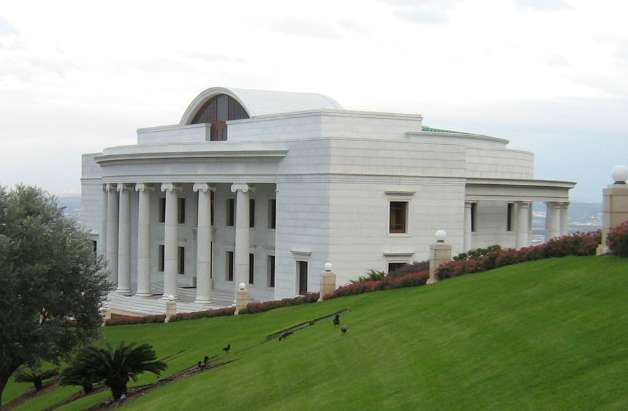 Template:EnThe International Teaching Centre, situated on Mount Carmel at the Bahá'í World Centre in Haifa. Taken by me during a 9-day pilgrimage in November 2006.